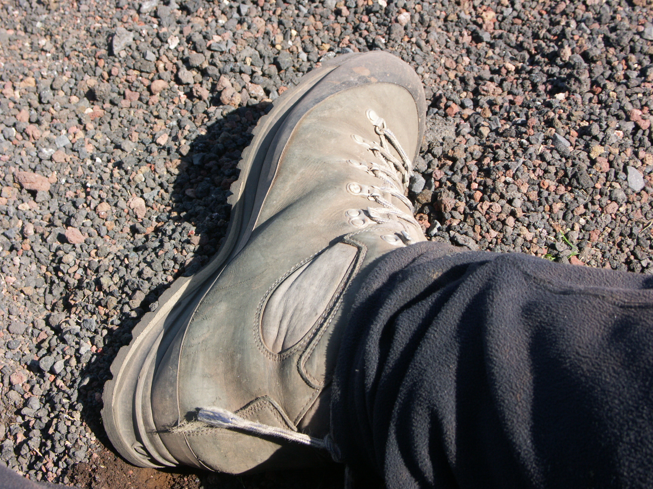 Mountaineering boot dusted with tephra ash, Eldfell Volcano, Heimaey, Vestmannaeyjar, Iceland